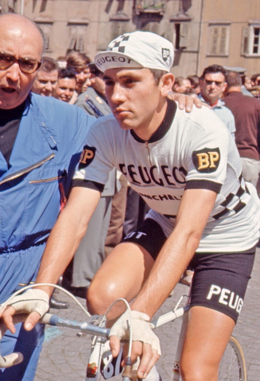 The Belgian cyclist Eddy Merckx arriving at the start of the 22nd stage of the Giro d'Italia Tirano-Milan. Tirano, 11th June 1967